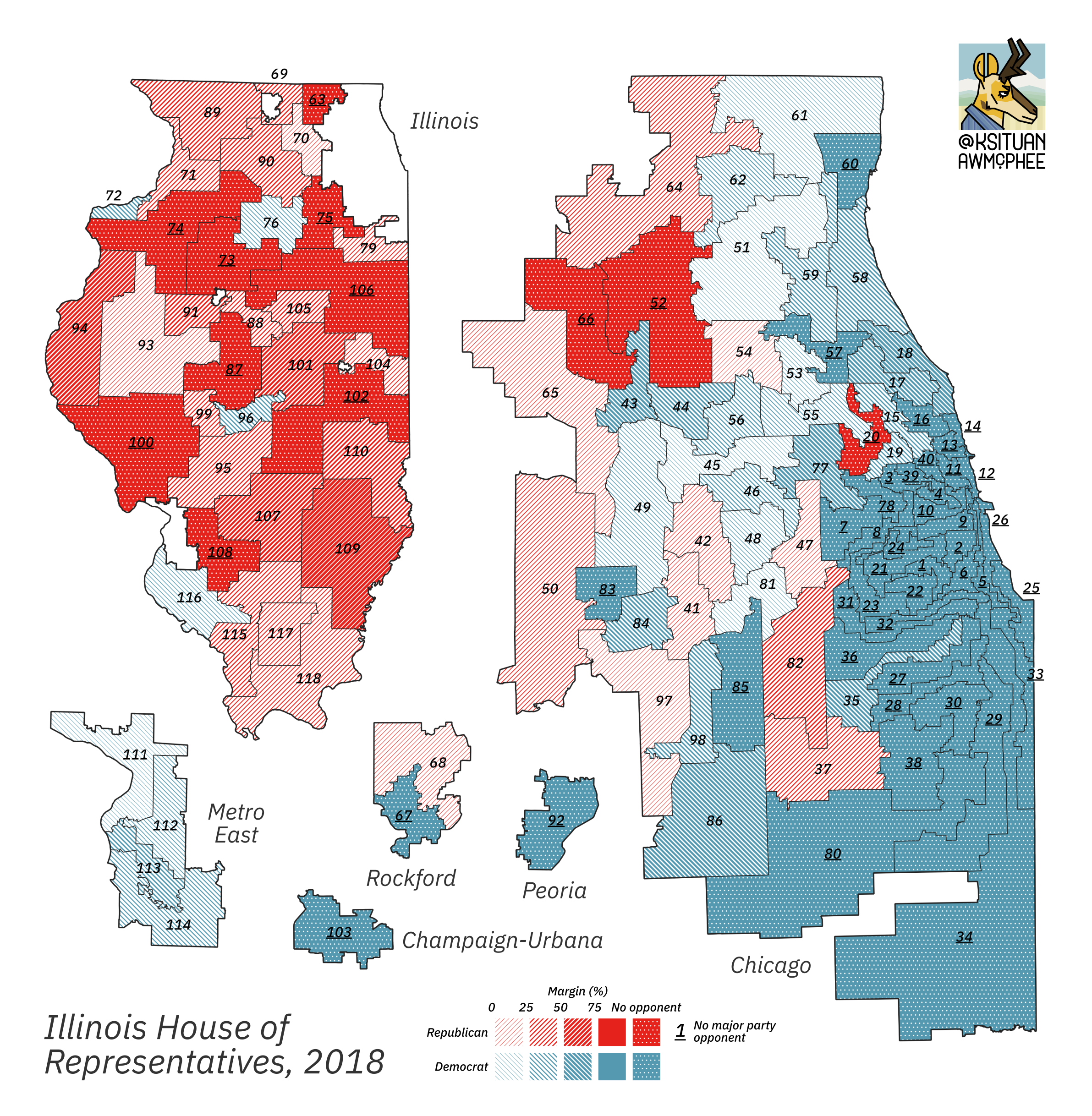 A series of state legislative election maps, created from open data during the summer of 2020. Their common visual style is designed to accomodate all of the unique features of American democracy. They were created using QGIS and Inkscape, two free programs. Please use freely and contact the author with any inquiries about visualizing election data with open-source tools.